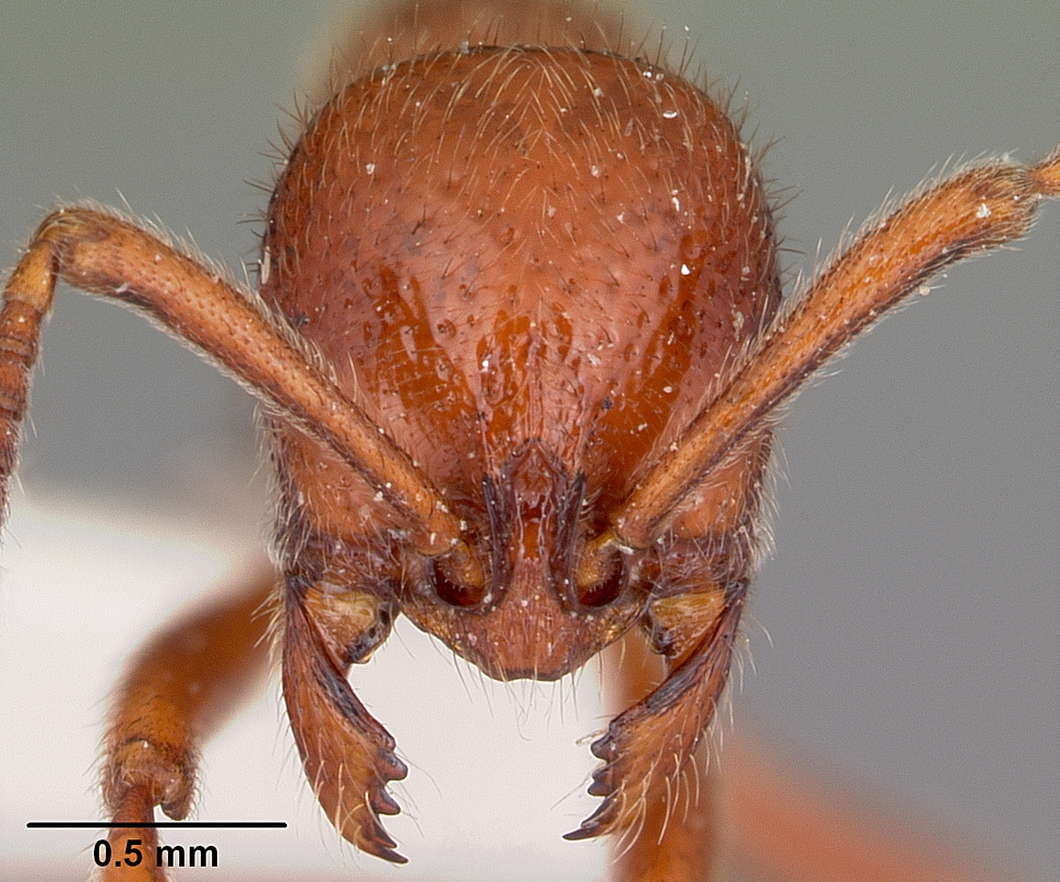 Head view of ant Proceratium avium specimen casent0101676.